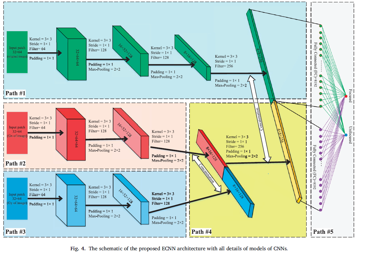 The schematic of the proposed ECNN architecture with all details of models of CNNs.